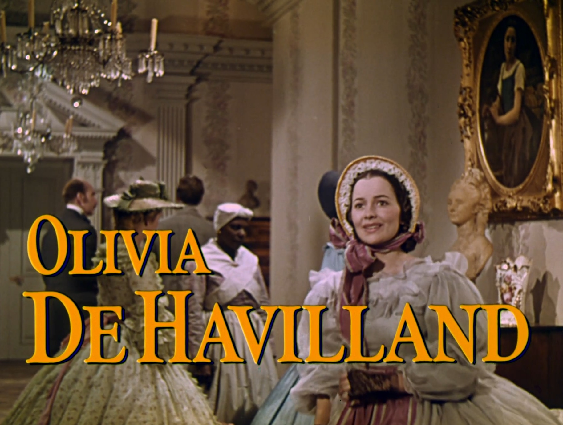 Cropped screenshot of Olivia de Havilland from the trailer for the film Gone with the Wind